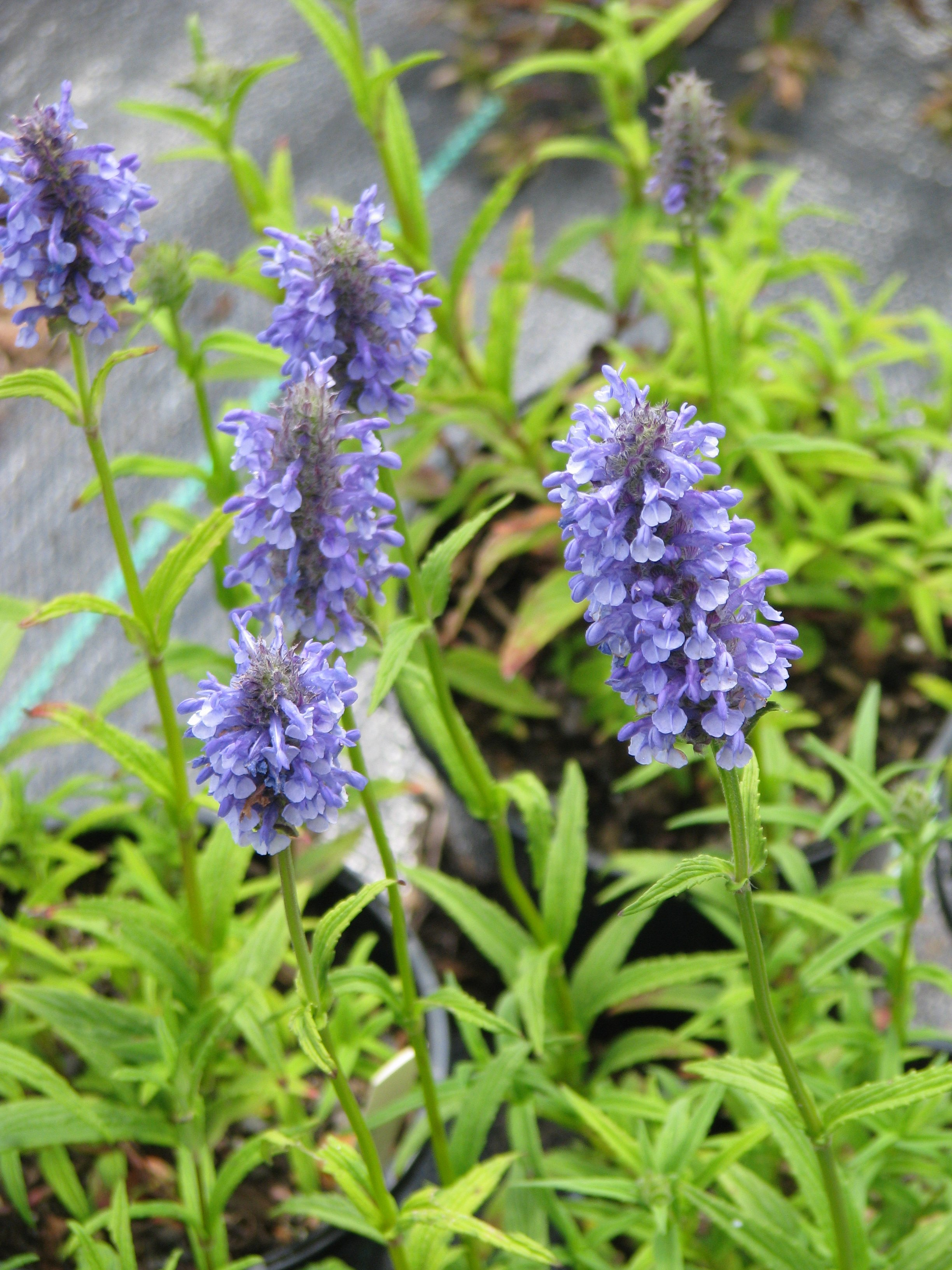 Nepeta nervosa